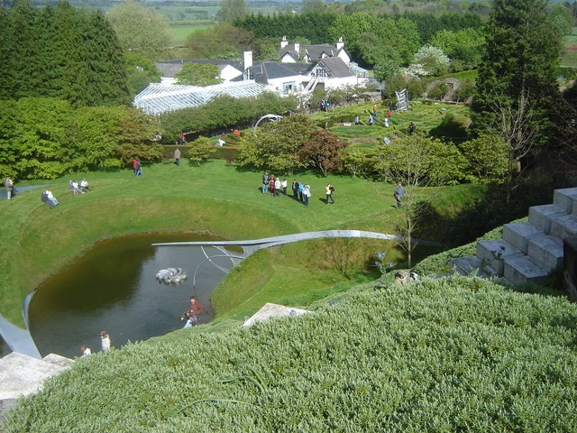 Portrack House and Sculpture Garden Open just once a year, unless by arrangement, "The Garden of Cosmic Speculation" is full of wonderful modern sculpture, including imaginative landscaping and works of art.